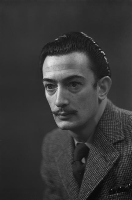 Studio photo